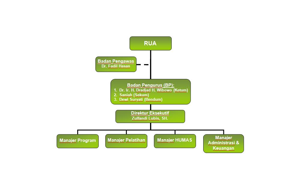 This is a organization structure IFCC-KSK